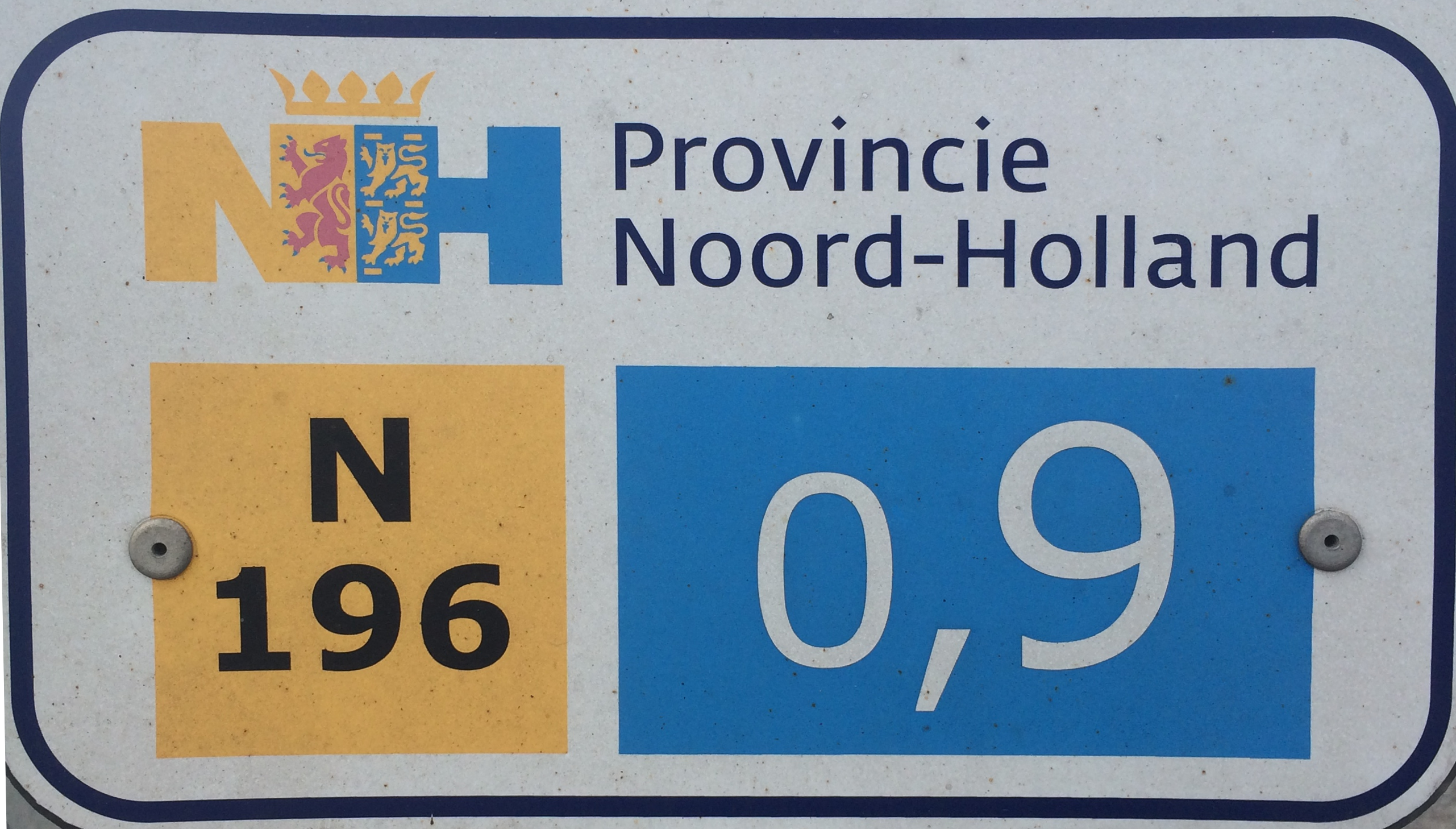 Location marker of Dutch provincial road N196.